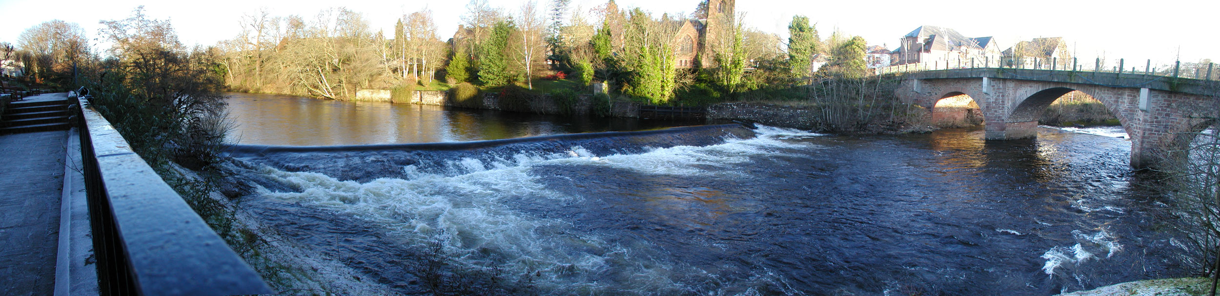 Bridge over the River Ericht, joining Blairgowrie and Rattray. Taken by Steven D. Reid 16 December 2006